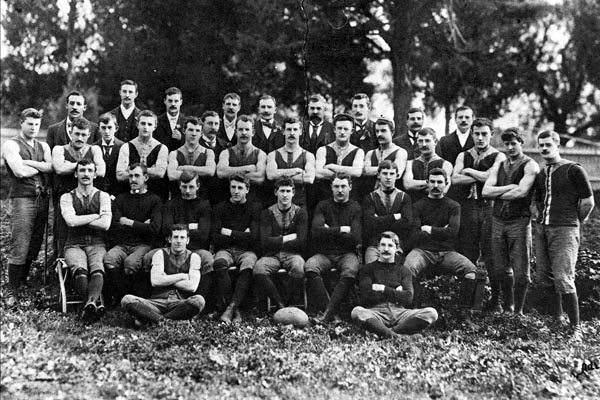 Team of Fitzroy FC that won the first VFL championship.